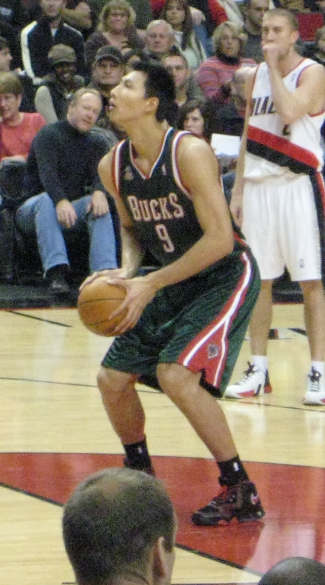 Yi Jianlian of the Milwaukee Bucks taking a free throw in an NBA game against the Portland Trail Blazers